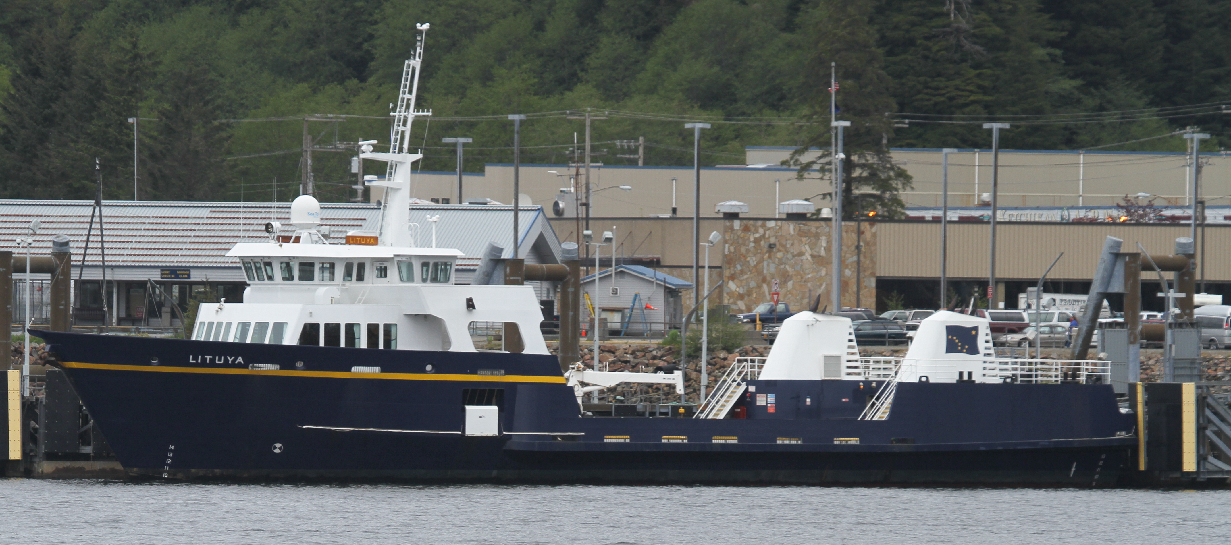 MV Lituya